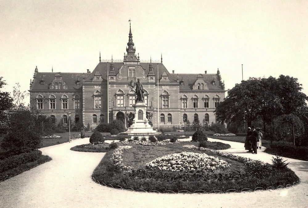 House of Germans and memorial of Joseph II, Holy Roman Emperor, Brno, Czech Republic